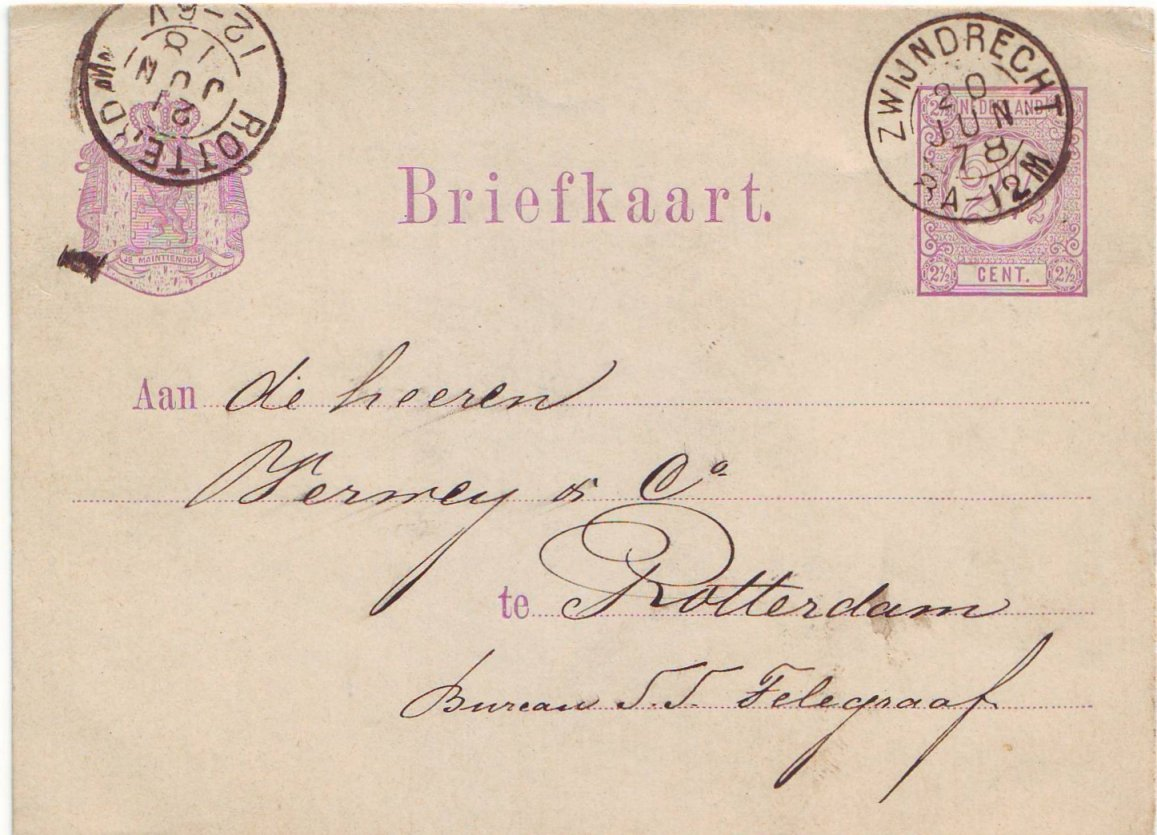 Postal card from Zwijndrecht to Rotterdam, 20 June 1878. Arrived on 21 June 1878.